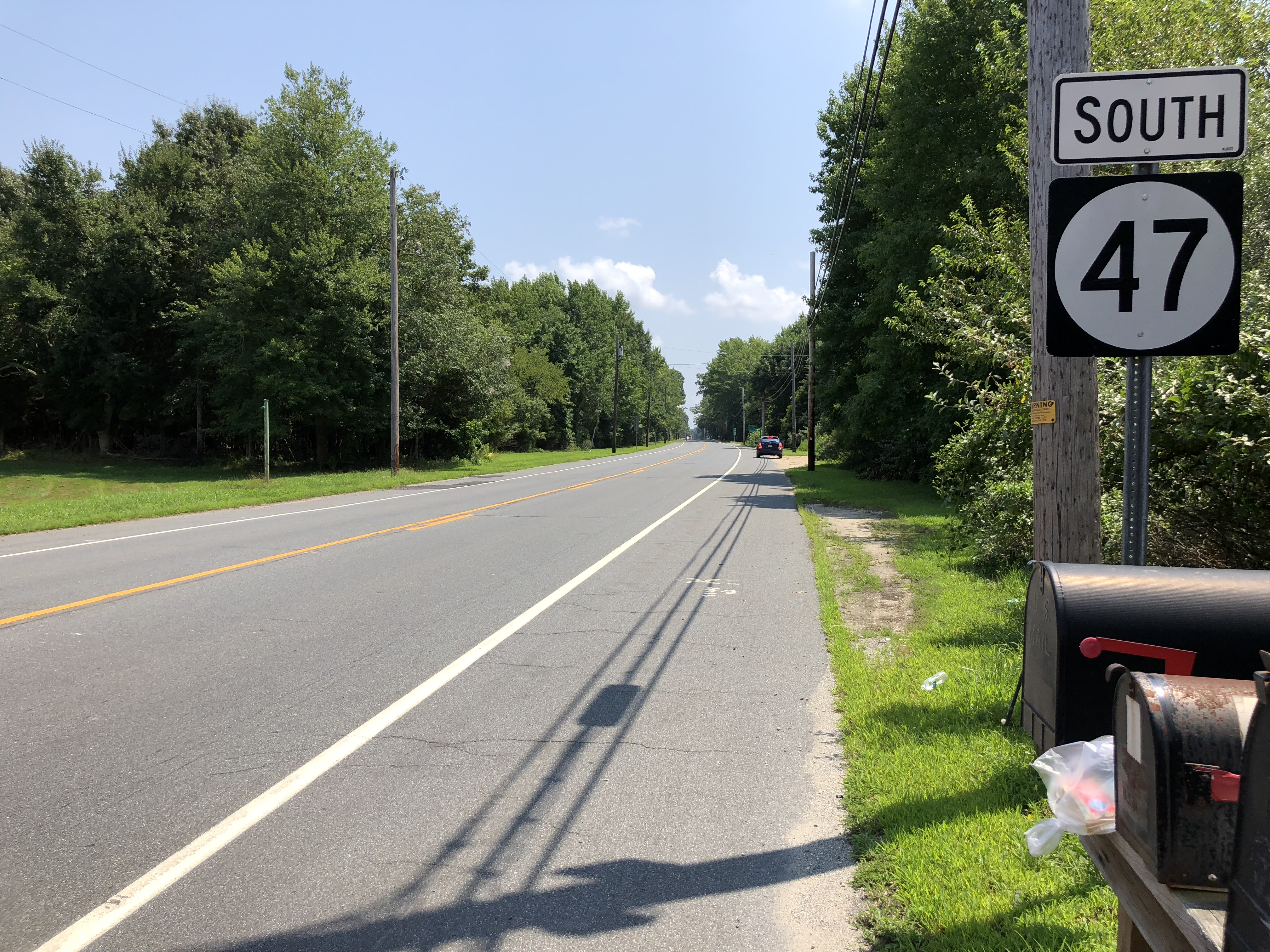 View south along New Jersey State Route 47 (Delsea Drive) at Schooner Landing Road in Maurice River Township, Cumberland County, New Jersey